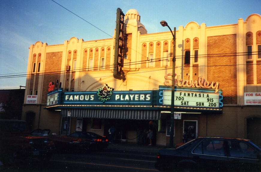 Photo created by Moisejp